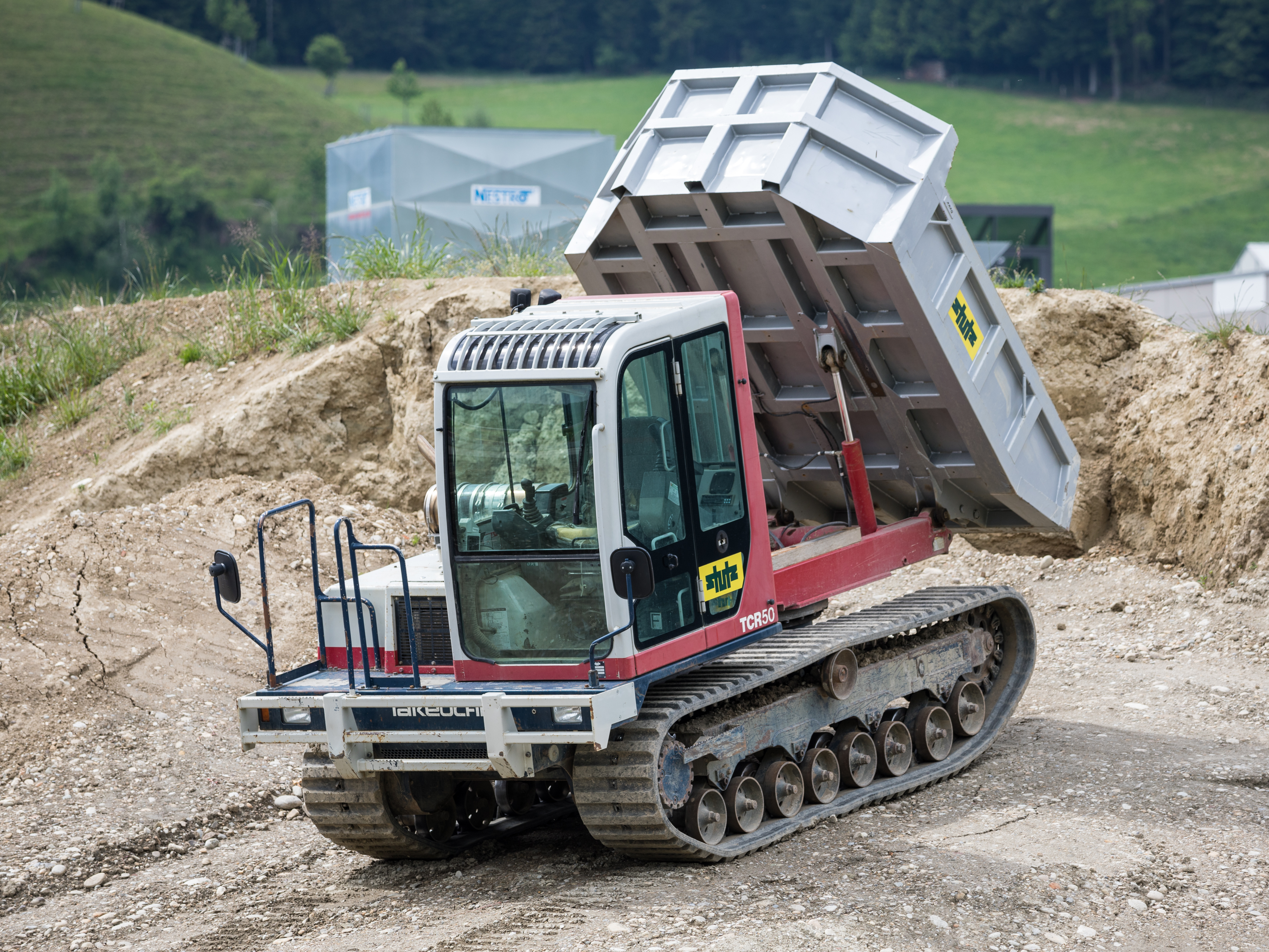 Takeuchi TCR50 tracked dumper